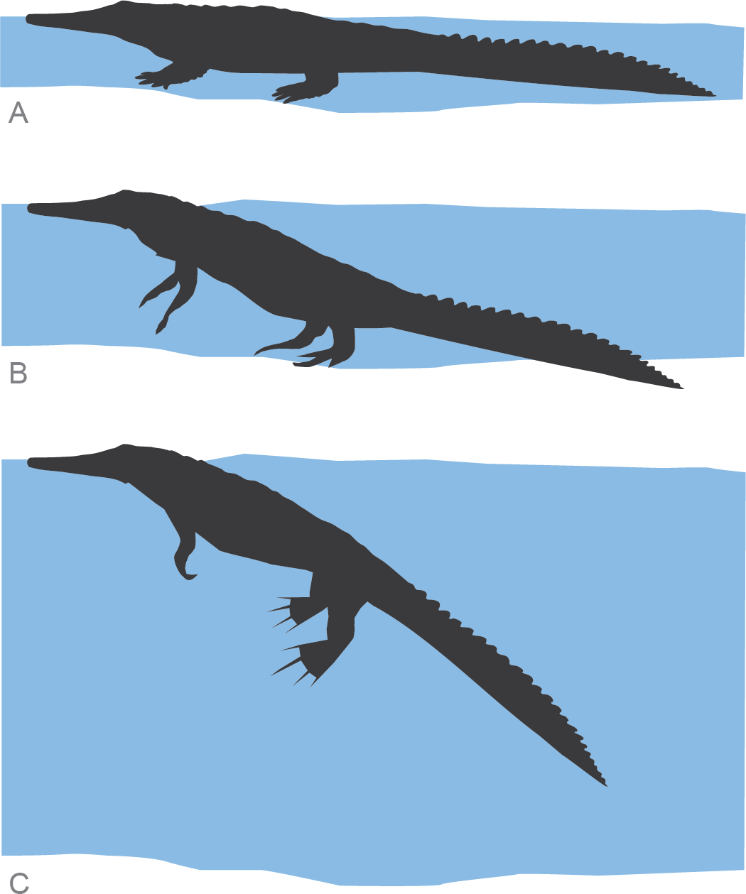 Schematic representation of resting postures of Susisuchus anatoceps based in extant crocodylomorphs. (A) Resting in shallow water with both body and tail contacting the bottom. (B) In shallow water when it is not able to touch the ground the hind limbs and half of the tail helping to support the animal. (C) When resting in deep water the limbs are held out nearly horizontally from the body, with fore and hind limbs extended to controls its position in buoyancy.